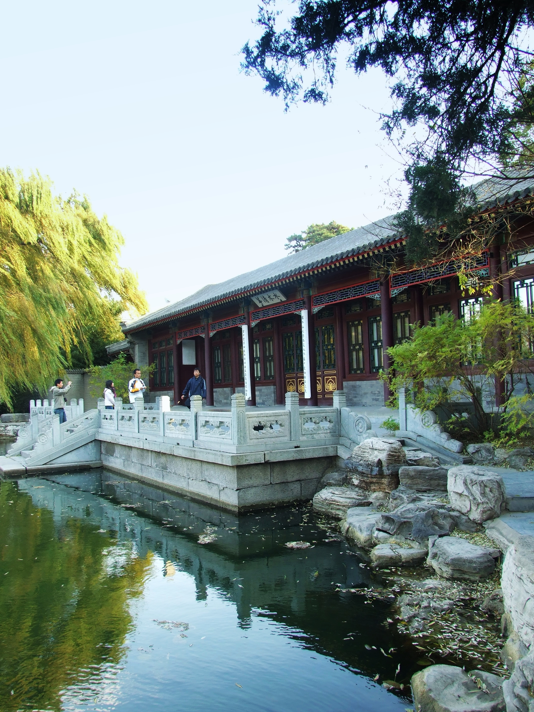 The "He Tang Yue Se" (moonlit pond), at the grounds of the Tsinghua University, Beijing.